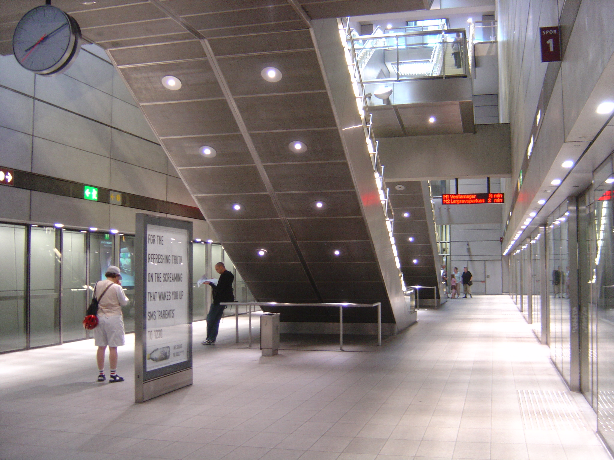 Forum station - a part of Copenhagen Metro, located next to Forum Copenhagen on Frederiksberg. Seen from northwestern side of the station under ground.